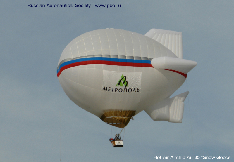 Hot-Air Airship Au-35 Snow Goose